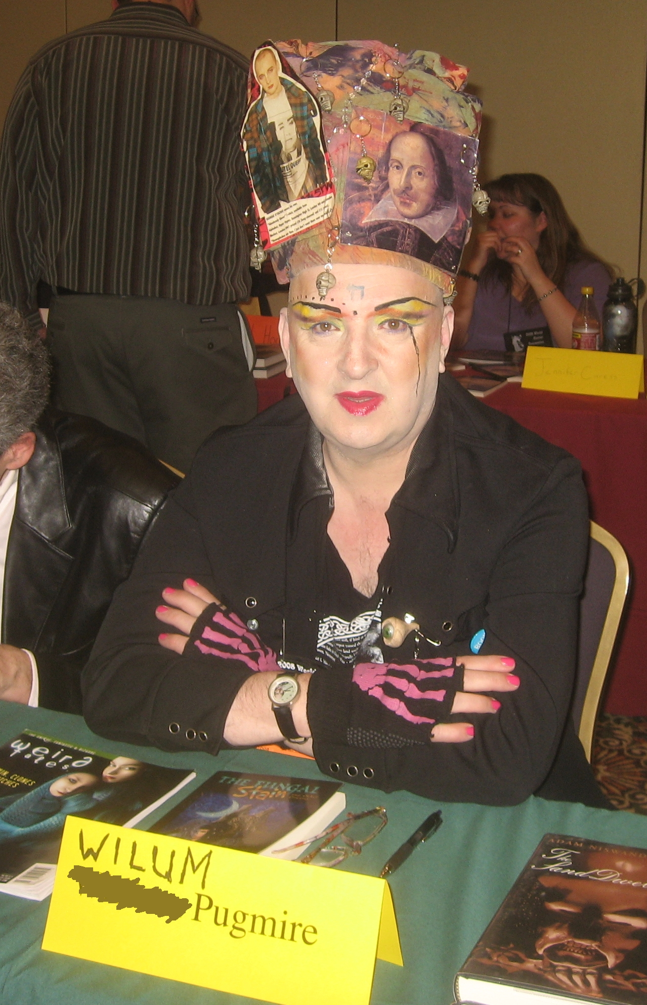 Horror writer W. H. Pugmire signing books at World Horror Convention 2008 in Salt Lake City.